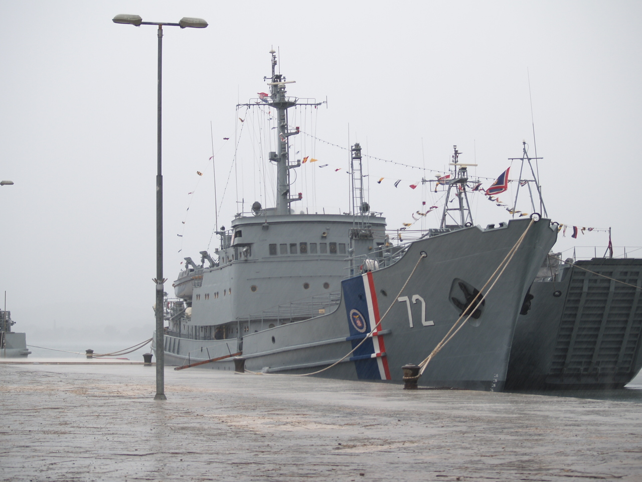 training ship BS-72 Andrija Mohorovicic (Croatian war navy)